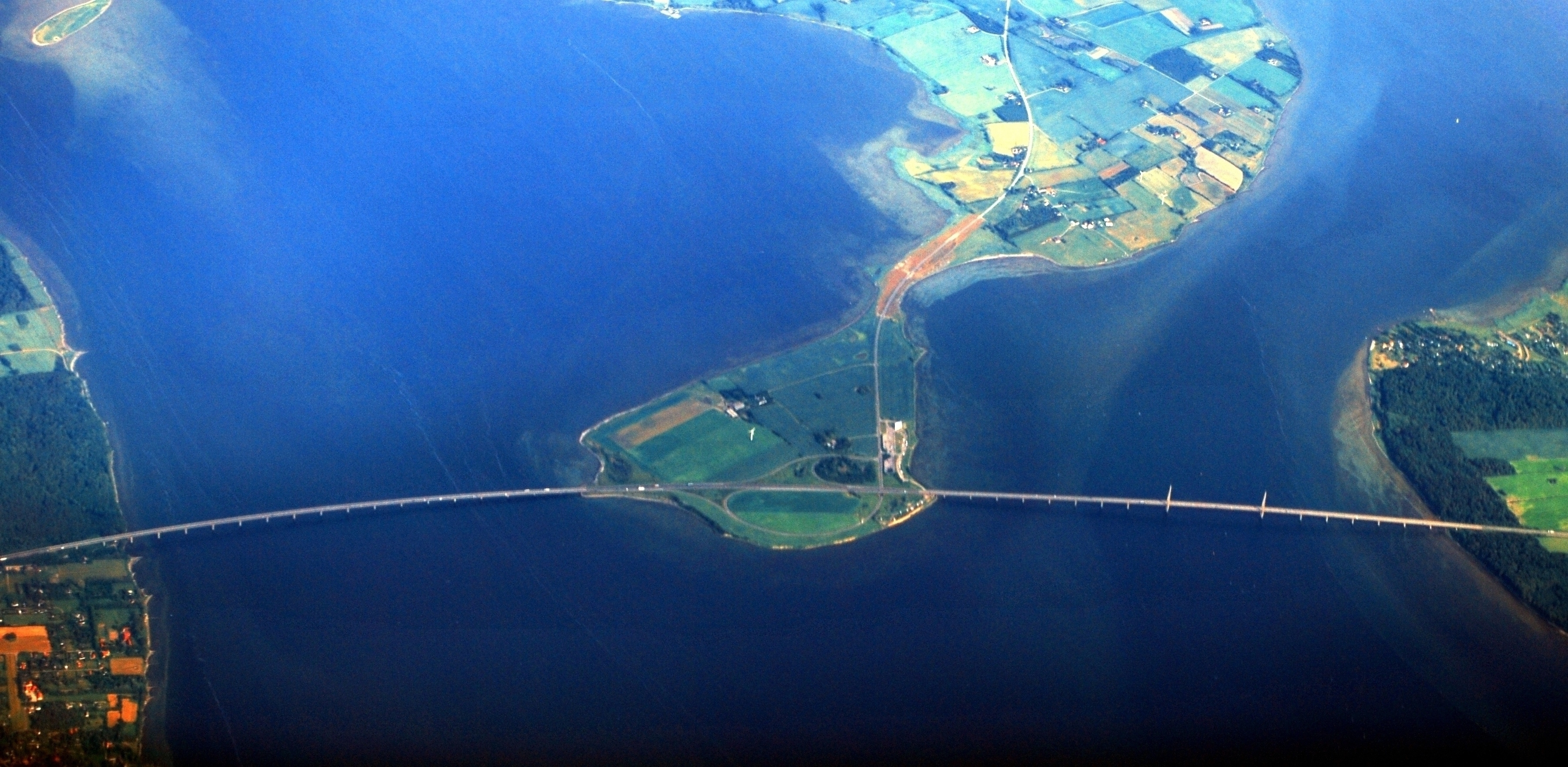 Aerial showing the small showing the two Farø Bridges which provide a link between Zealand and Falster in Denmark by way of the smaller island of Farø as well as the shorter bridge which connects Farø to Bogø